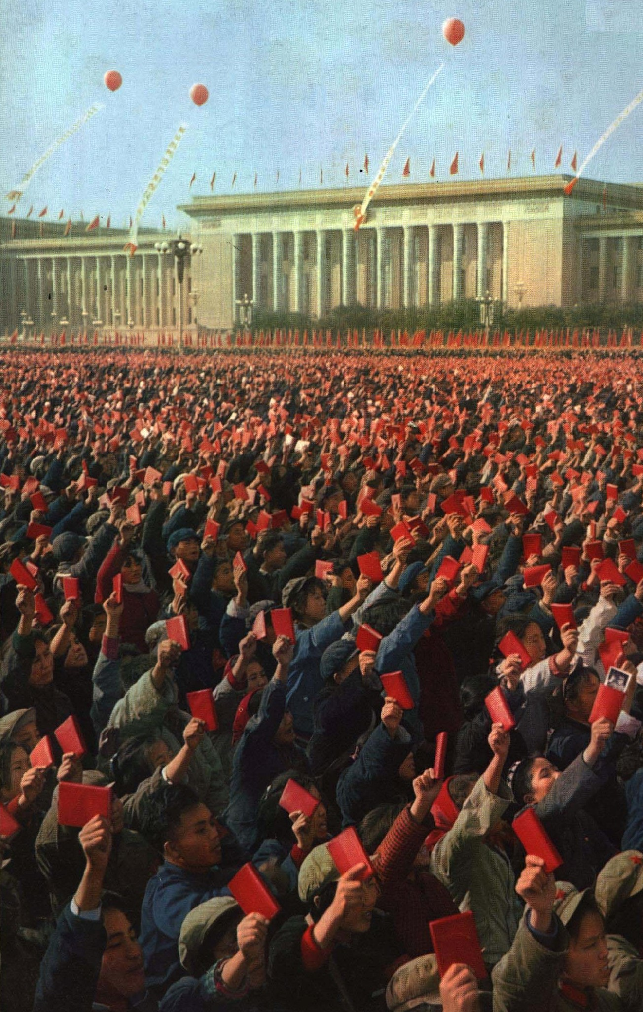 1967-02 1967年的红卫兵